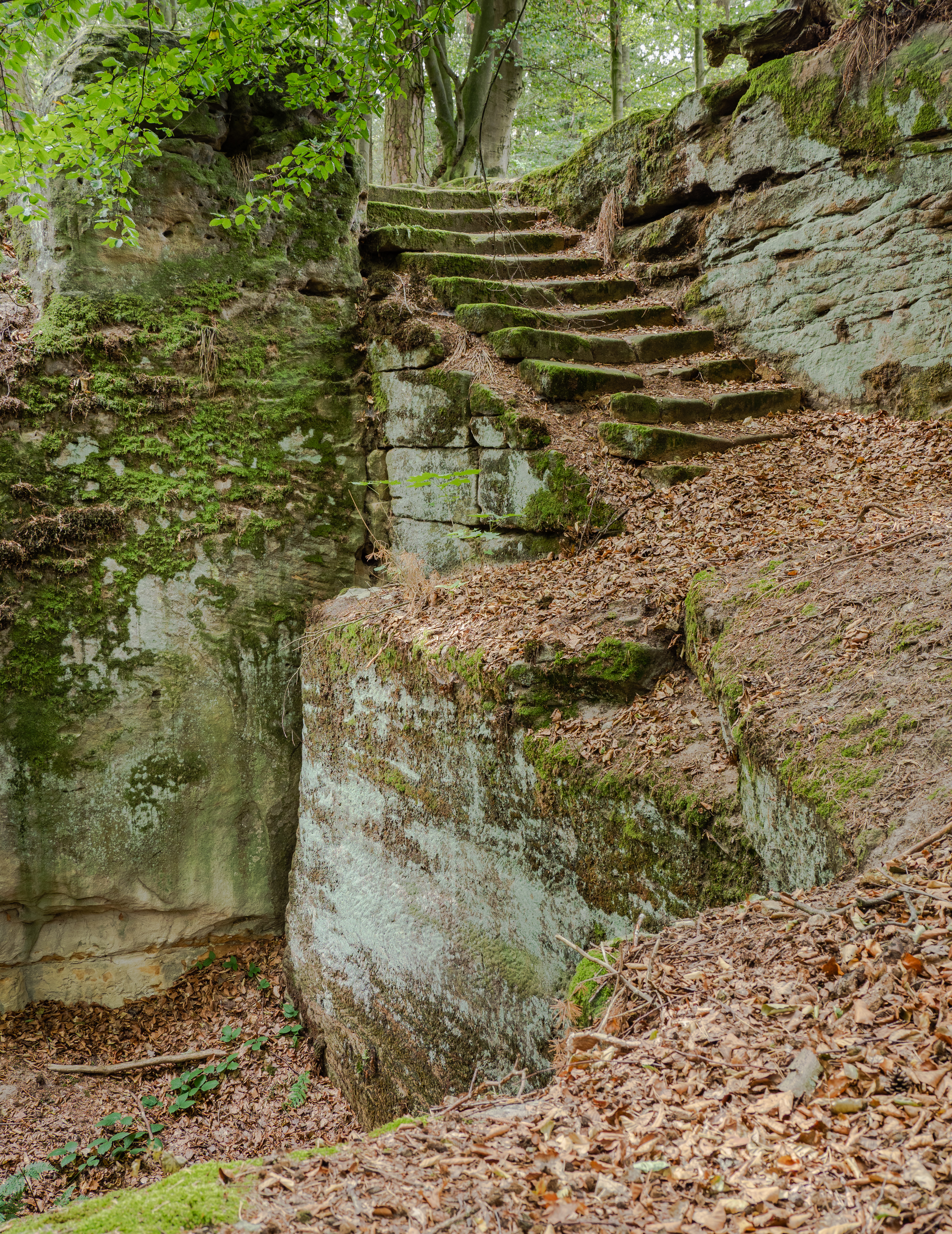 Former landscape garden of Gleusdorf Castle Gereuther Tannen im Glasholz near Buch